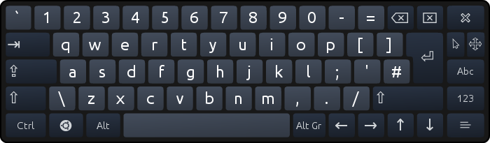 Screenshot of Ubuntu's Onboard on-screen keyboard software.